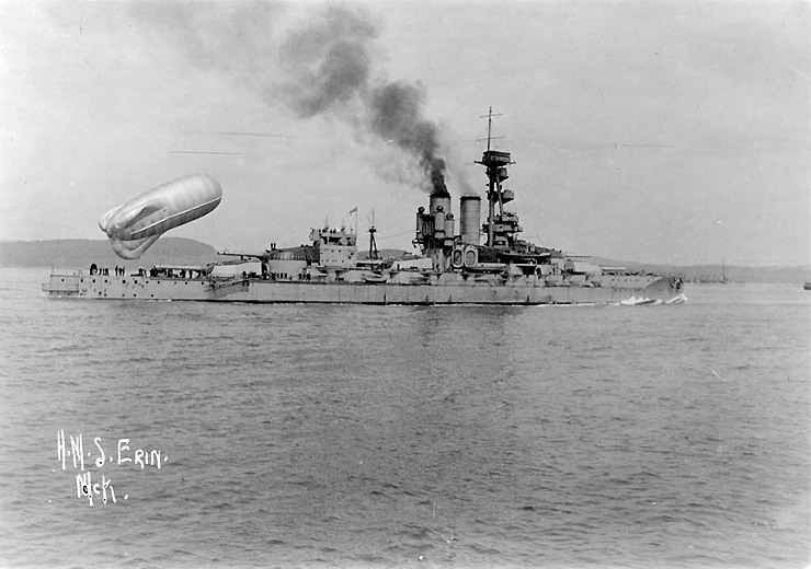 (From source, Photo #: NH 89154) HMS Erin (British Battleship, 1914) underway in a North Sea harbor, with a kite balloon moored aft, 1918.